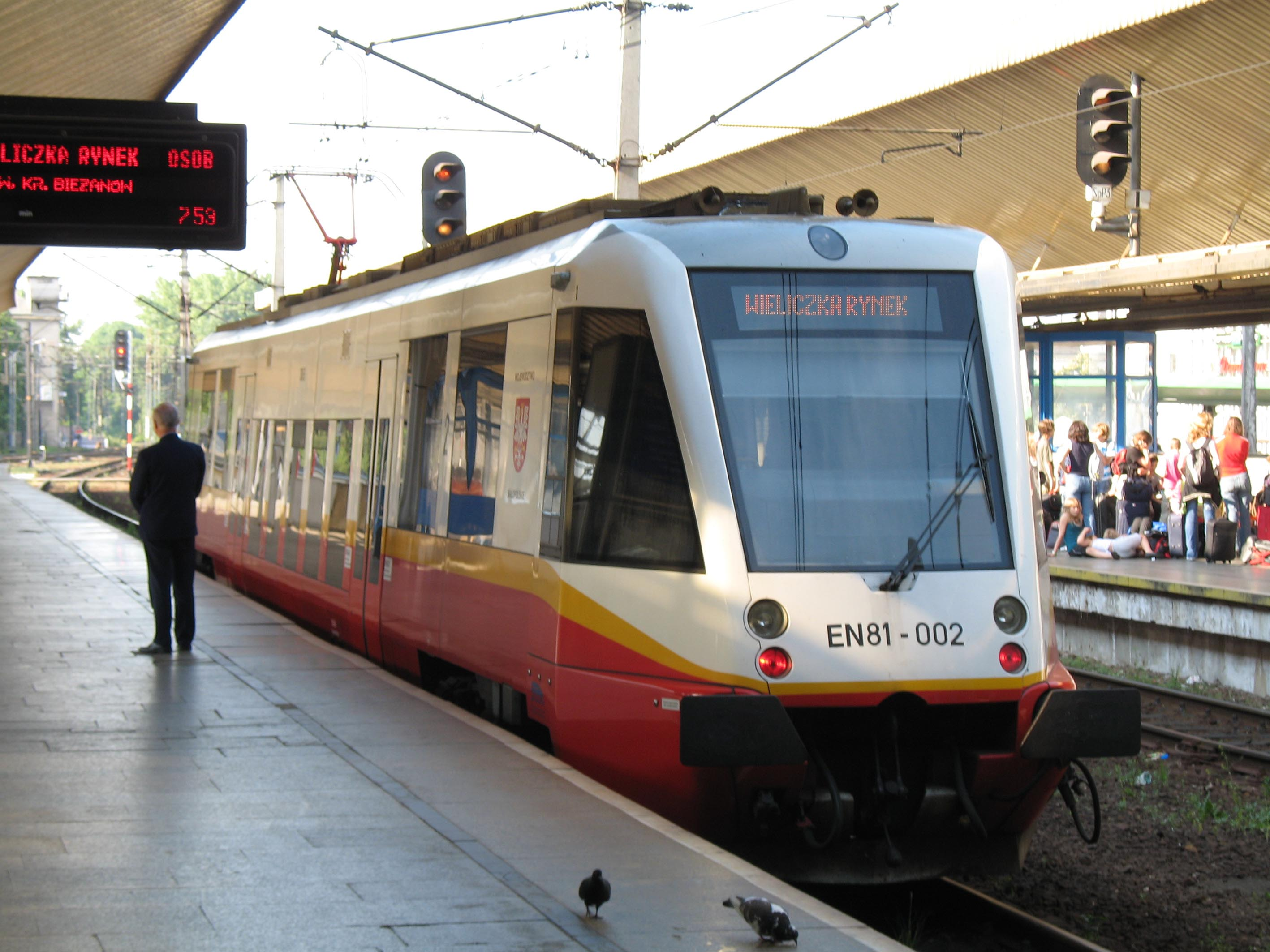 PESA EN81 - 002 train in Kraków, Poland.